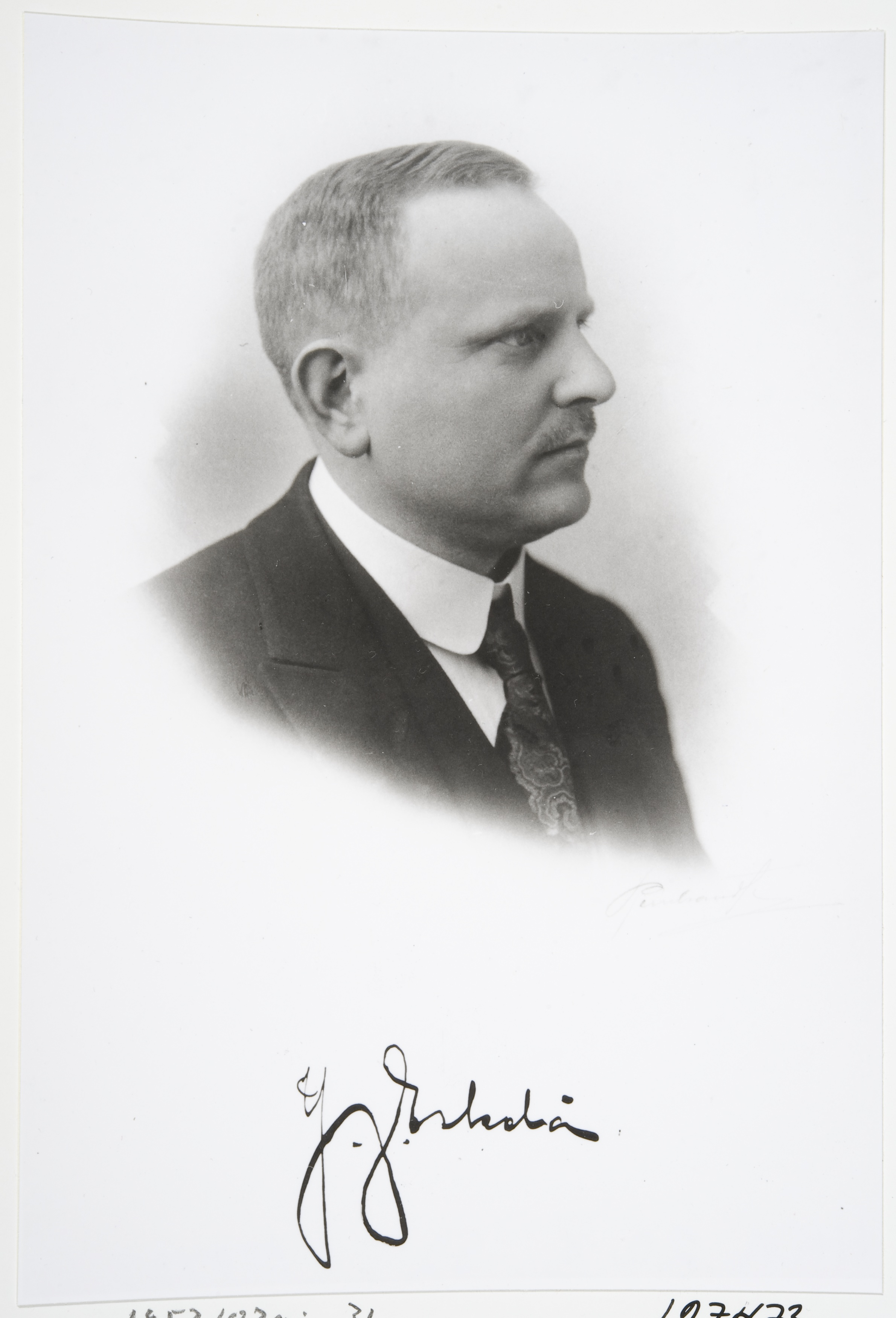 Interior minister Yrjö Johannes Eskelä in 1922